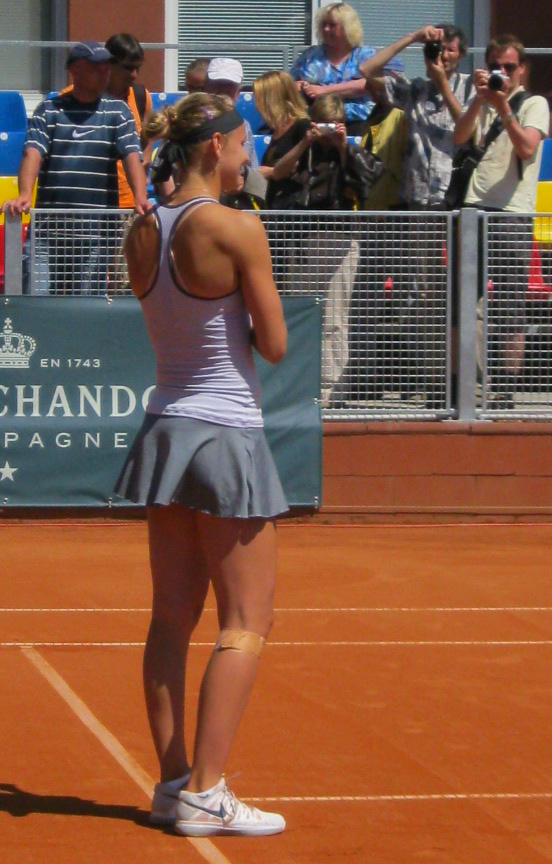 Lucie Šafářová holds the trophy after winning Sparta Prague Open 2013 in Singles.